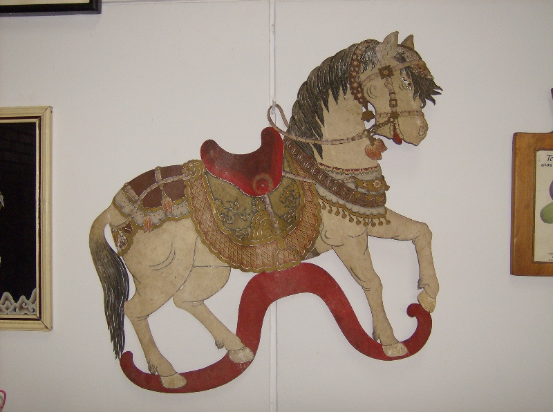 A wayang puppet, reminiscent of Uccaihsrawa, a character from the story "The churning of the ocean".